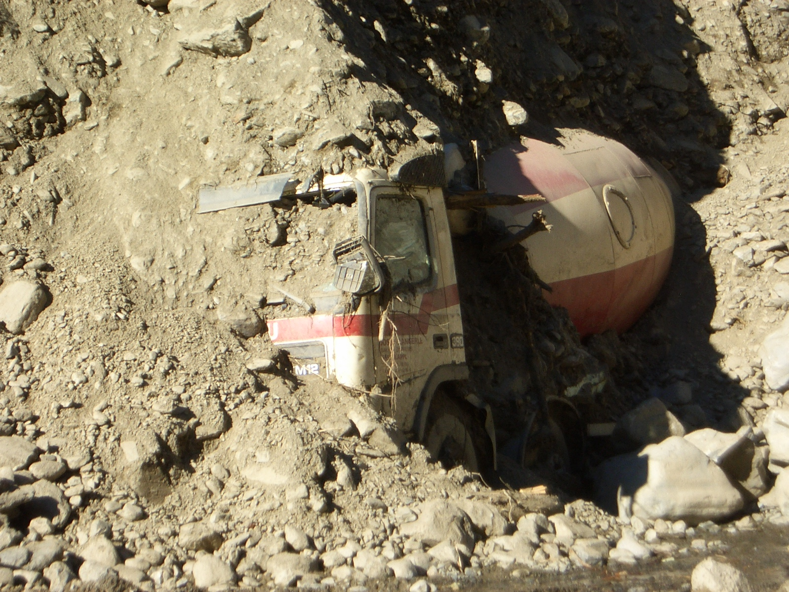 Slopped concrete transport truck near Kappl, Austria - 2 months after the flood.